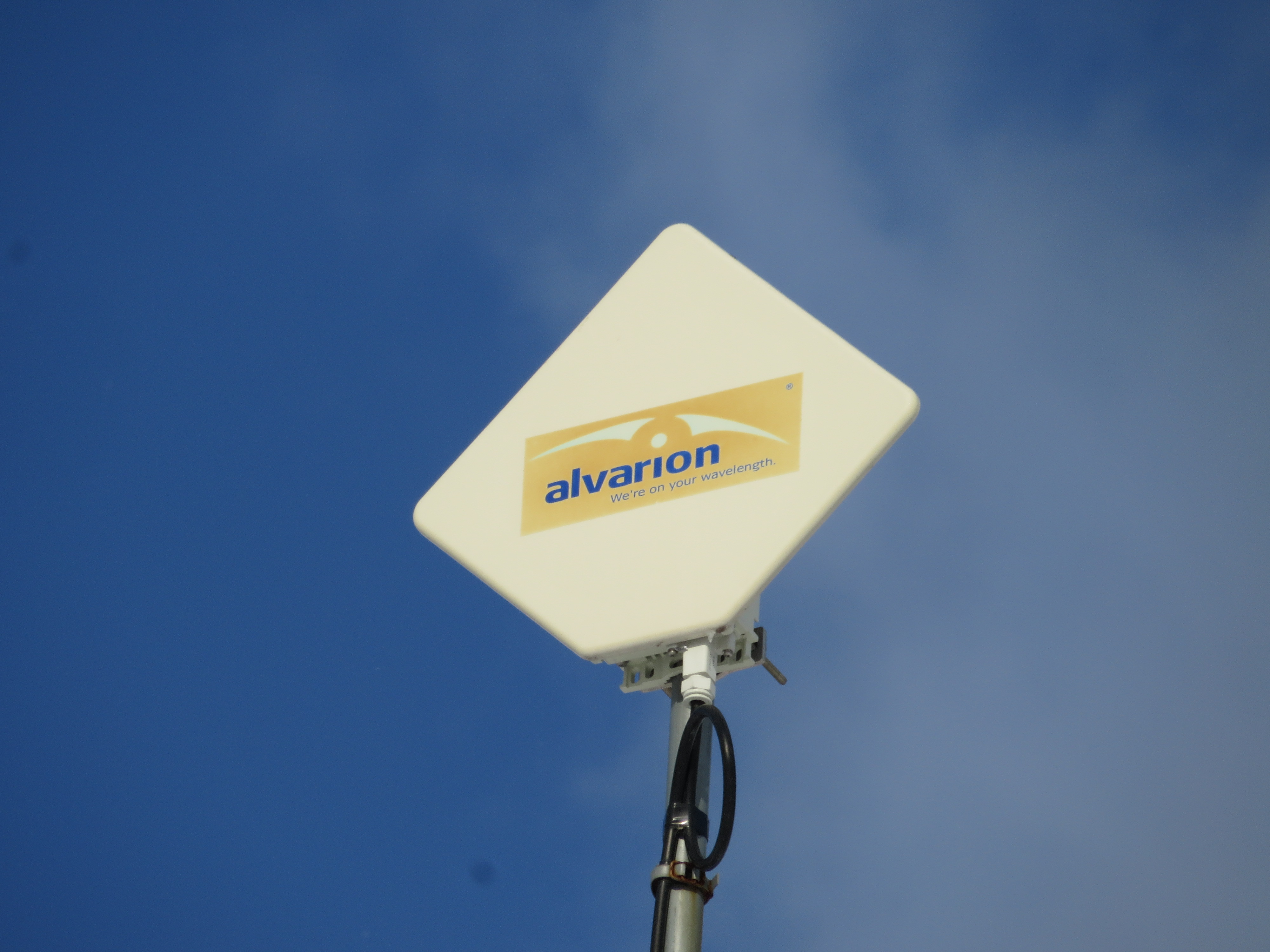 Fixed Wireless Access Antenna in operation